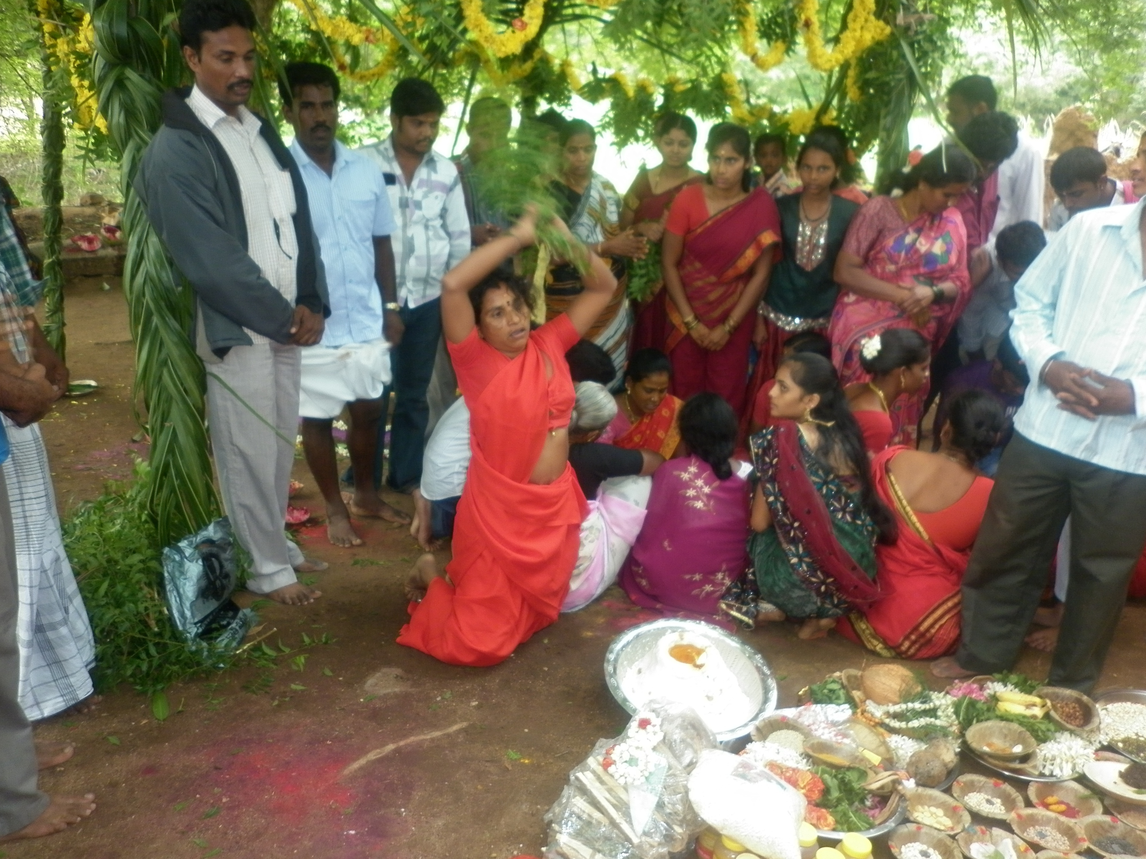 godess